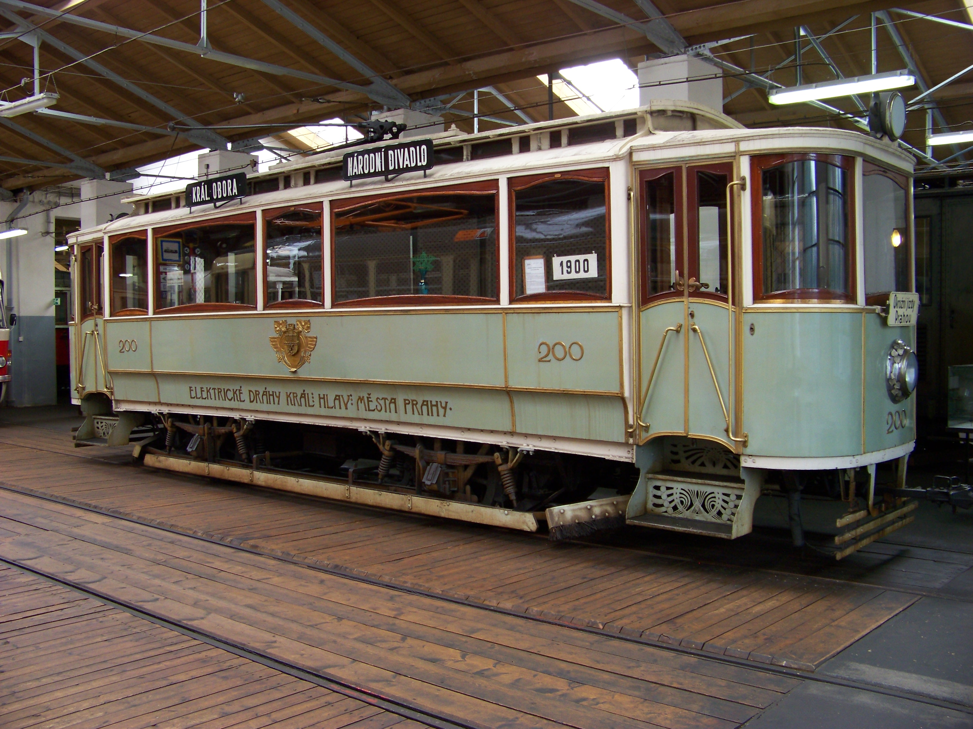 Prague-Střešovice, Czech Republic. Střešovice tram depot, Public Transport Museum. A tram.